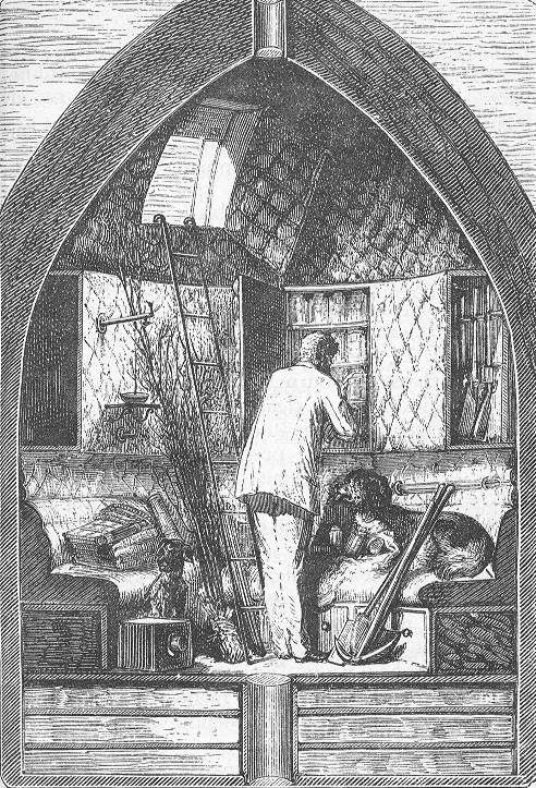 An illustration from the novel "From the Earth to the Moon" by Jules Verne drawn by Henri de Montaut.